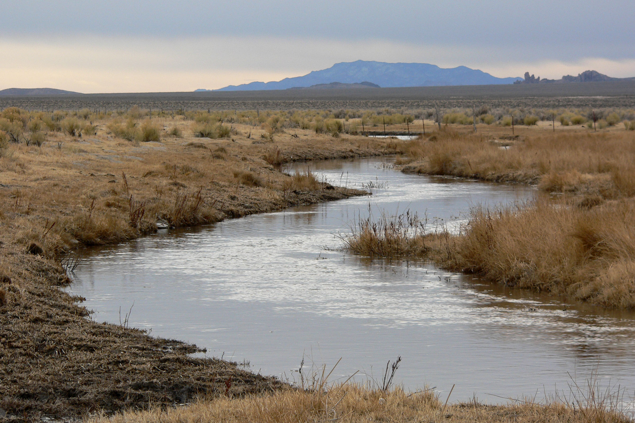 White River at Murphy Meadow looking south, Nye County, Nevada